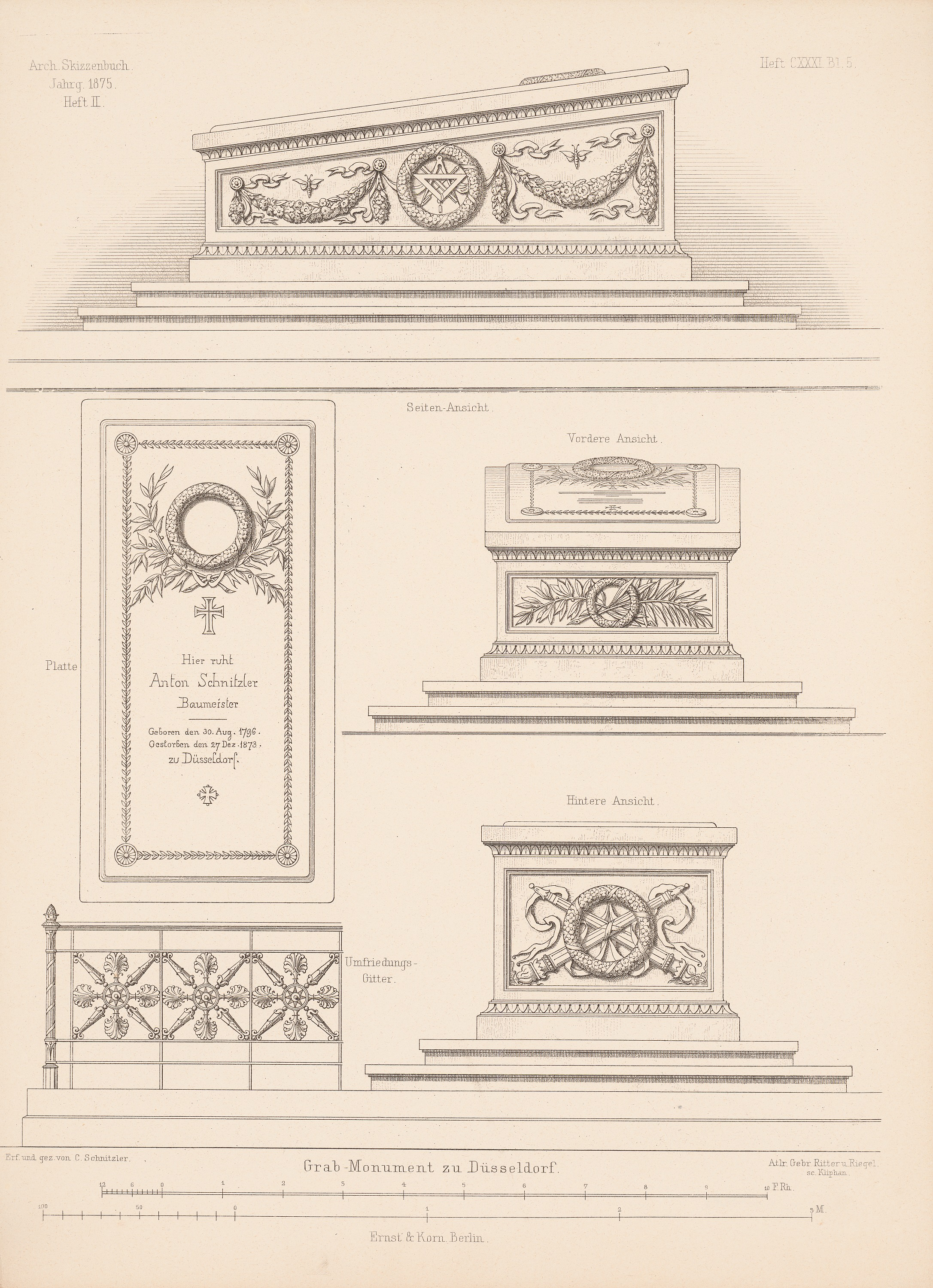 C. Schnitzler C. Schnitzler, Grabmonument, Düsseldorf. (Aus: Architektonisches Skizzenbuch, H. 131/2, 1875)